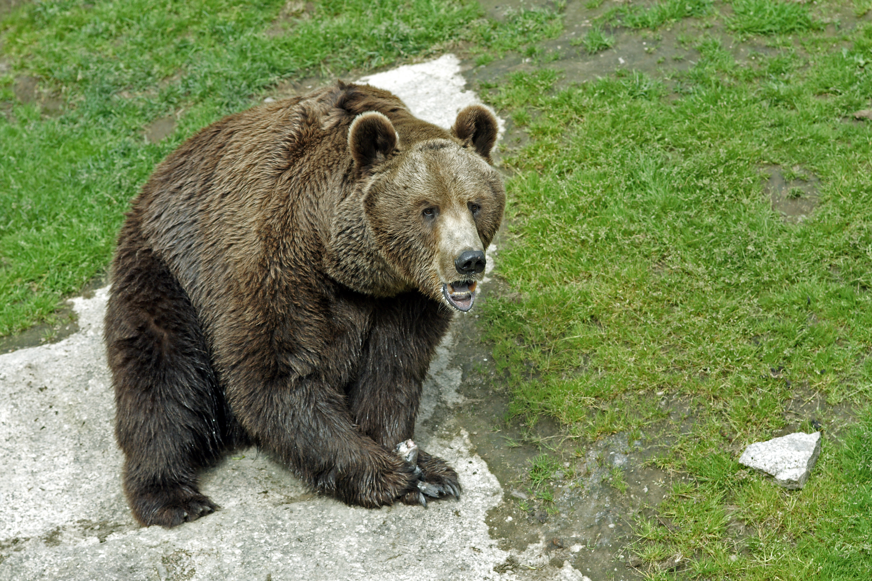 Brown bear (Ursus arctos) in Ähtäri Zoo.